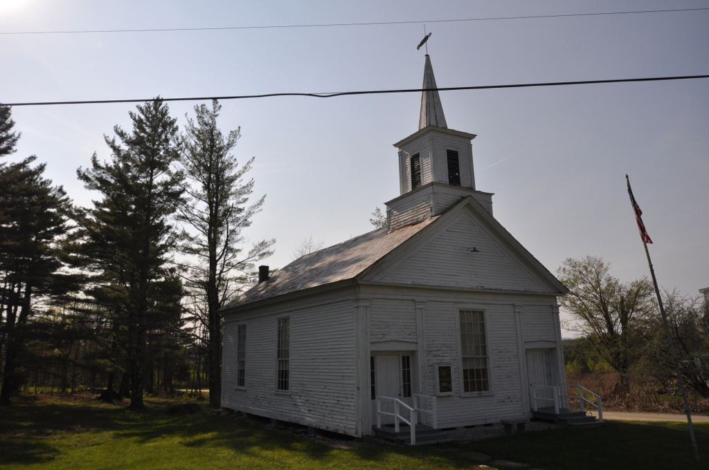 Town hall, Halifax, Vermont.